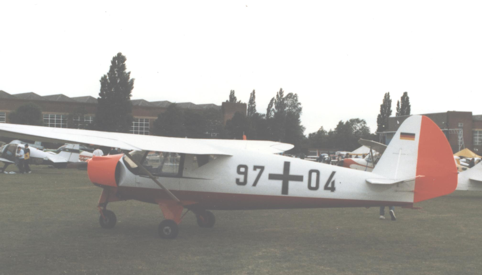 Putzer Elster B 97+04 (G-APVF) at the Cranfield Bedfordshire PFA Rally